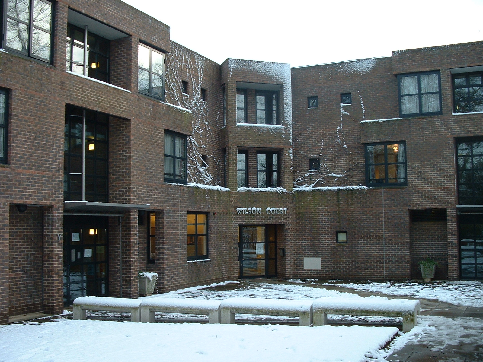 Taken by Satinder SinghWilson Court (description from User:SS1981/Images/Fitzwilliam College)Fitzwilliam College, Cambridge (additional description by JackyR)